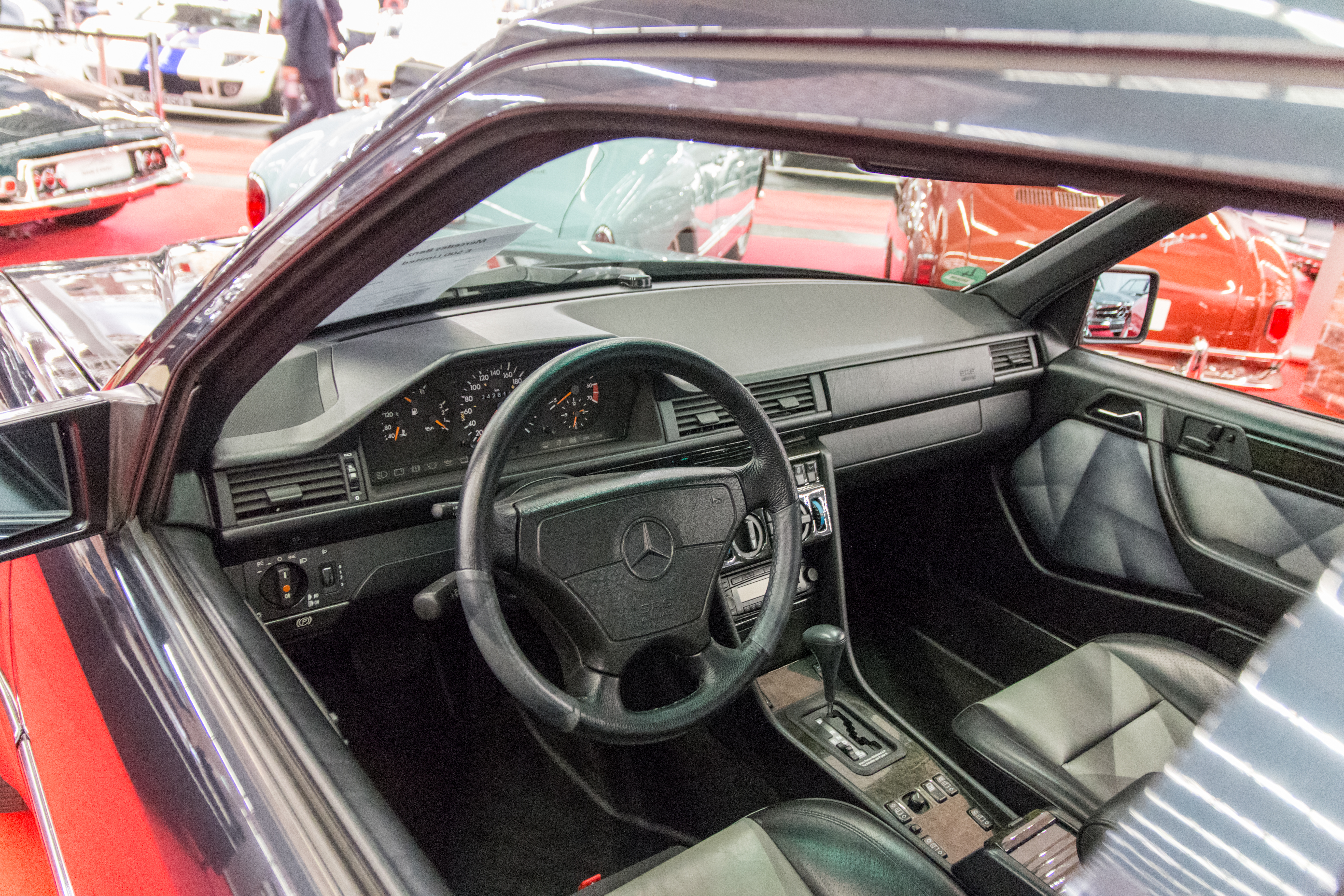 Mercedes-Benz W 124 E 500